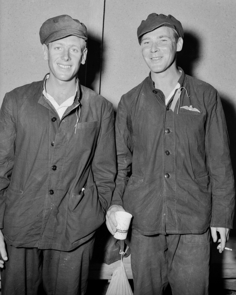 Panmunjom, North Korea. RAAF pilots, Pilot Officer Vance Drummond (left) and Pilot Officer Bruce Thomson (right) at Freedom Village in the blue Chinese prison uniforms they wore during their captivity in prisoner of war camps in North Korea.